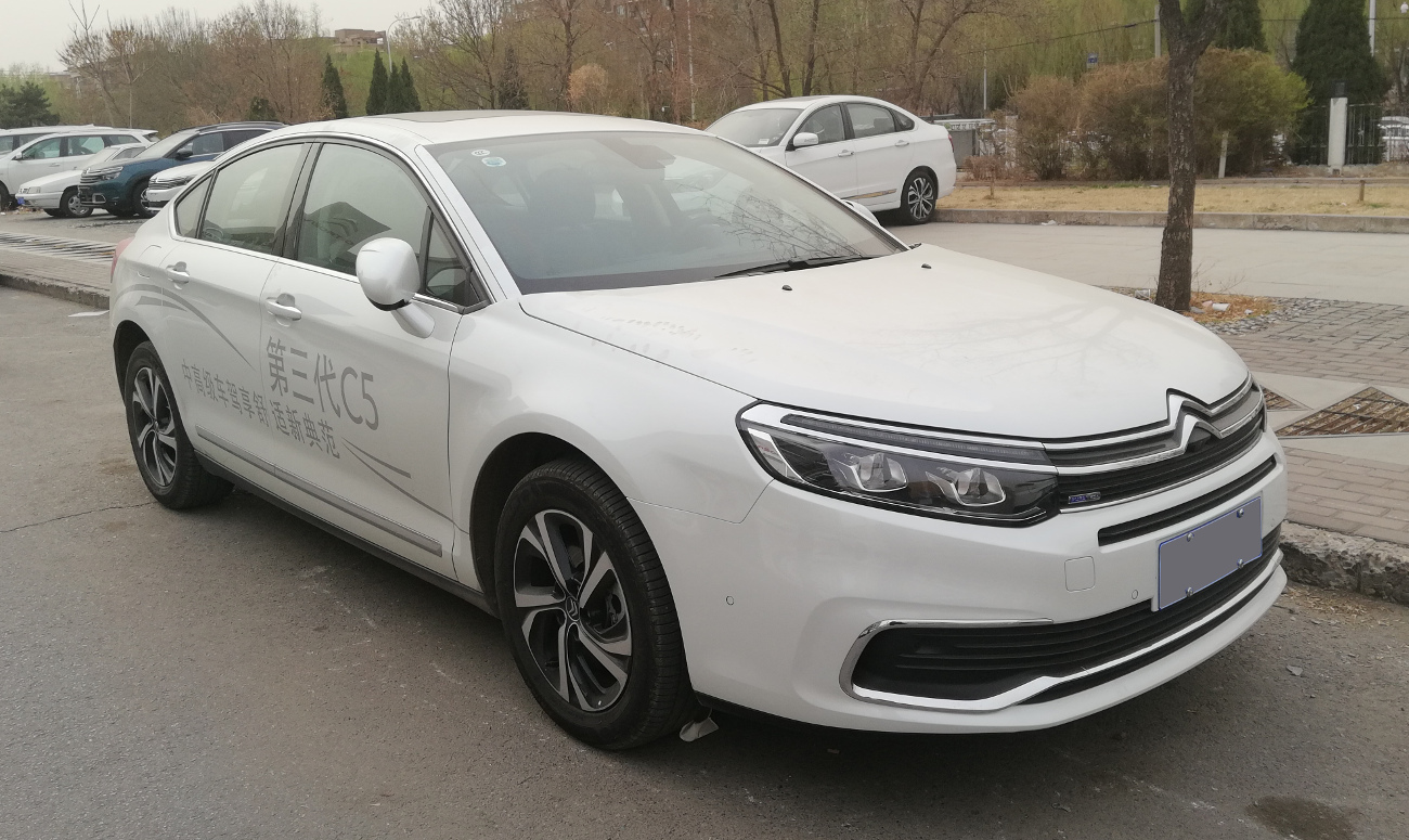 Citroën C5 II CN facelift II photographed in Beijing, China.